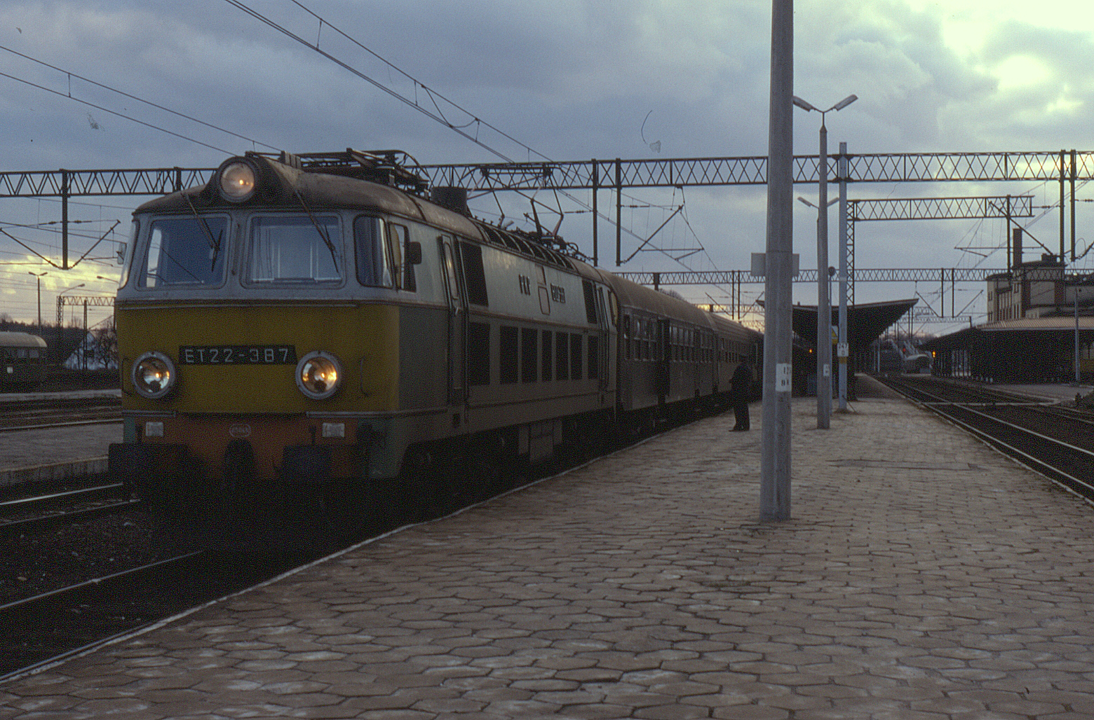 ET22-387 in charge of train 87440, 14:12 Kołobrzeg to Poznan Gł at Piła Gł on 24 March 1994. Gł is the official abbreviation for Główny = main (station) in Polish.